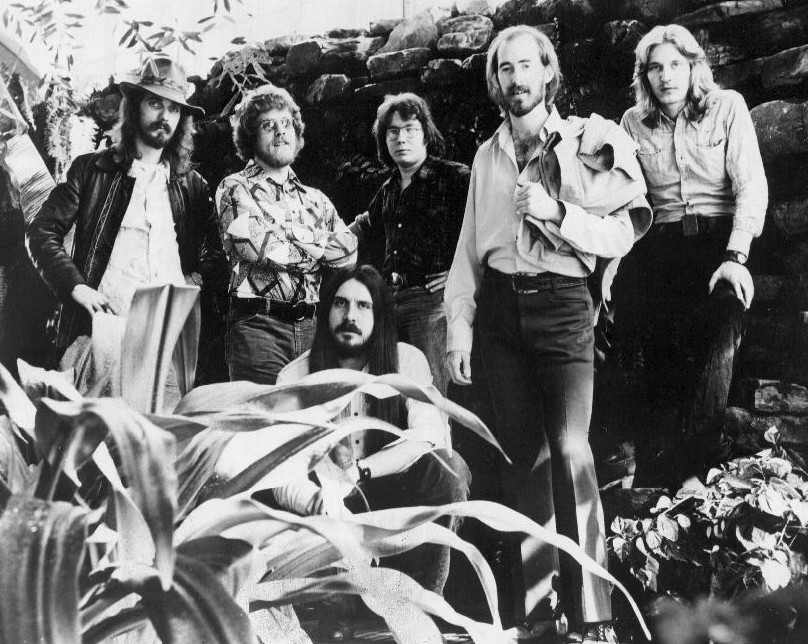 Photo of the group Amazing Rhythm Aces from 1976.